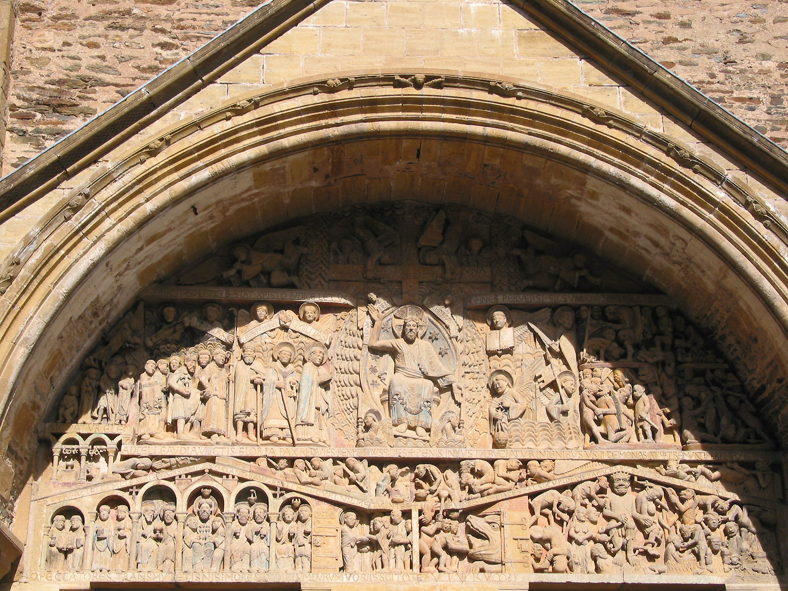 Conqes, (Aveyron - France), the tympanum of Ste-Foy abbey-church (XIth century).